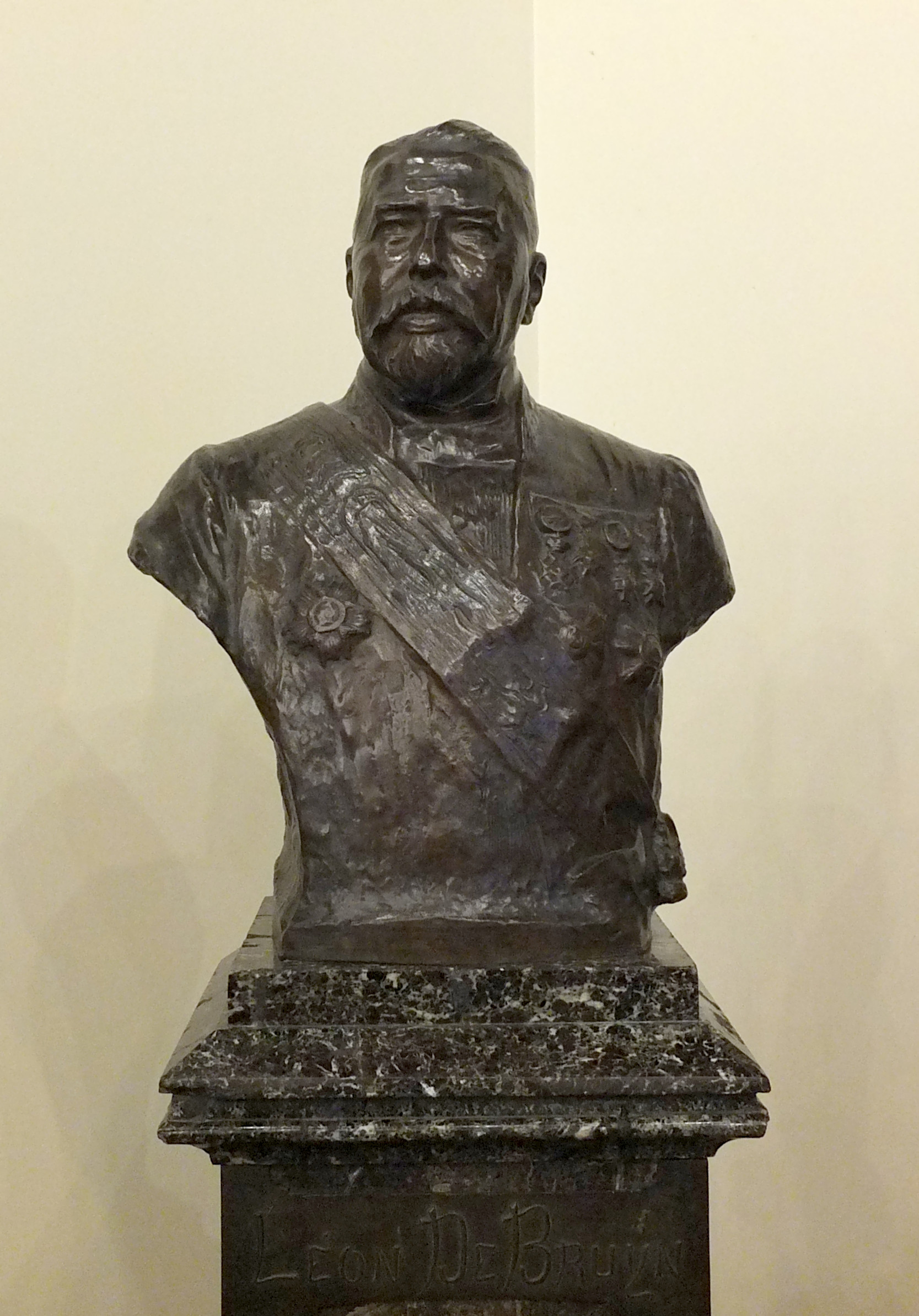 Bust of the mayor of Dendermonde and Member of Parliament for Dendermonde Léon de Bruyn (1838-1908) door Pieter Braecke (1858-1938).